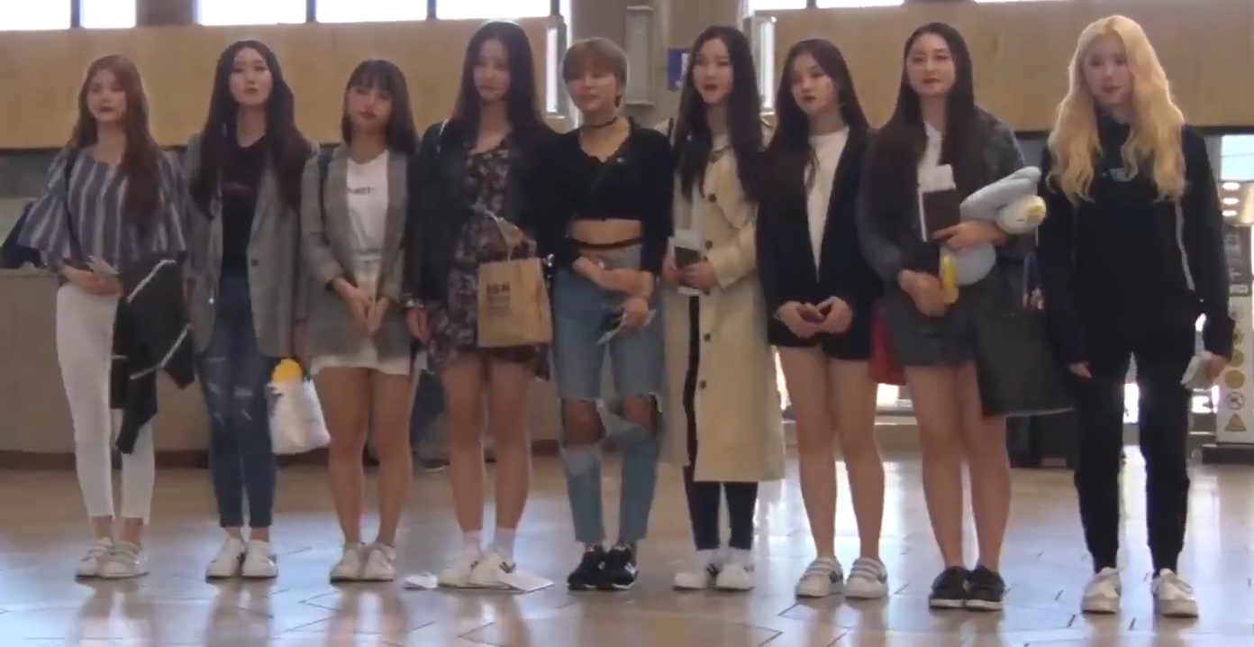 Momoland at Gimpo International Airport on 13 April 2018